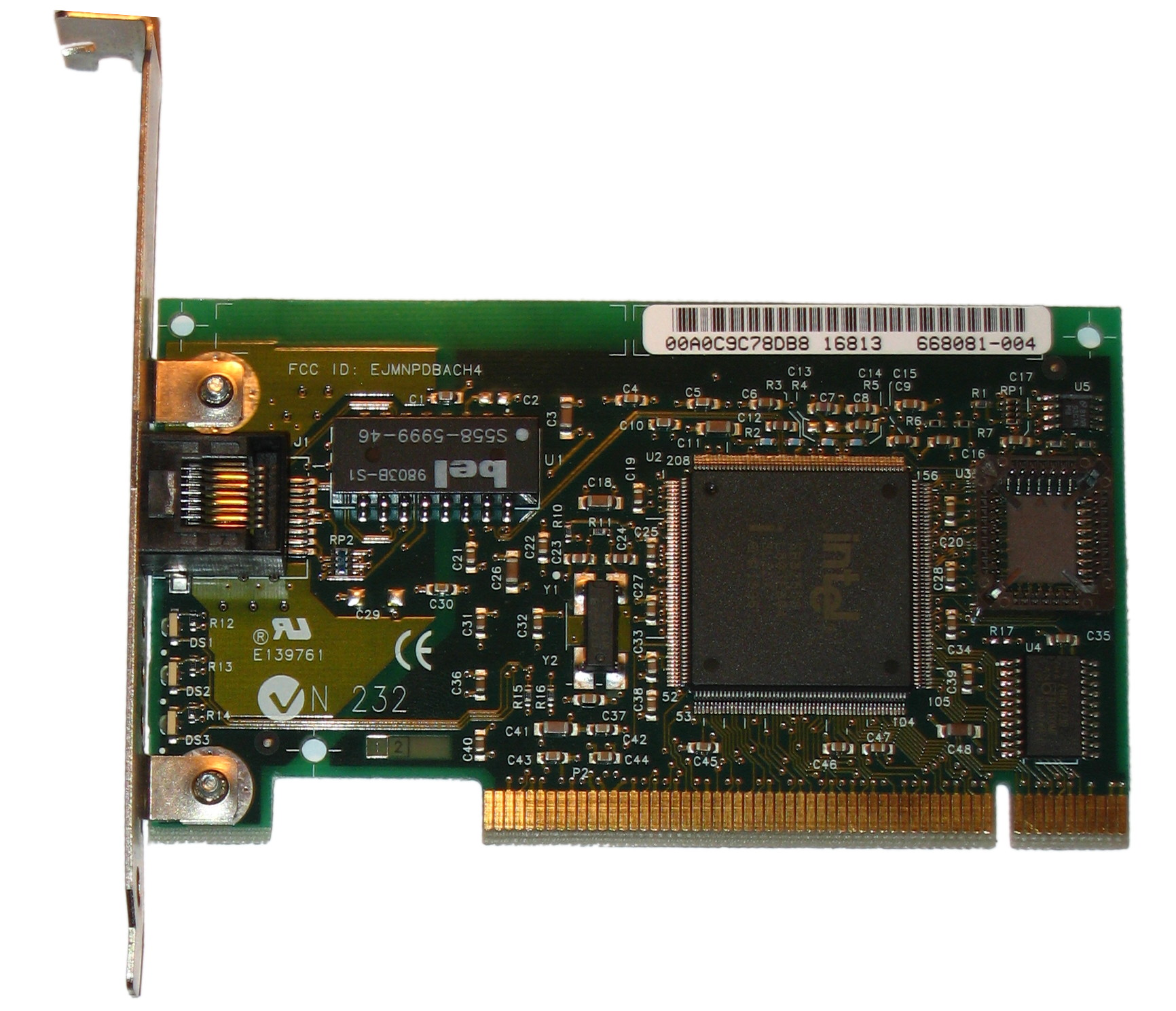 Intel Pro/100 Desktop NIC, 82558 integrated PHY/MAC